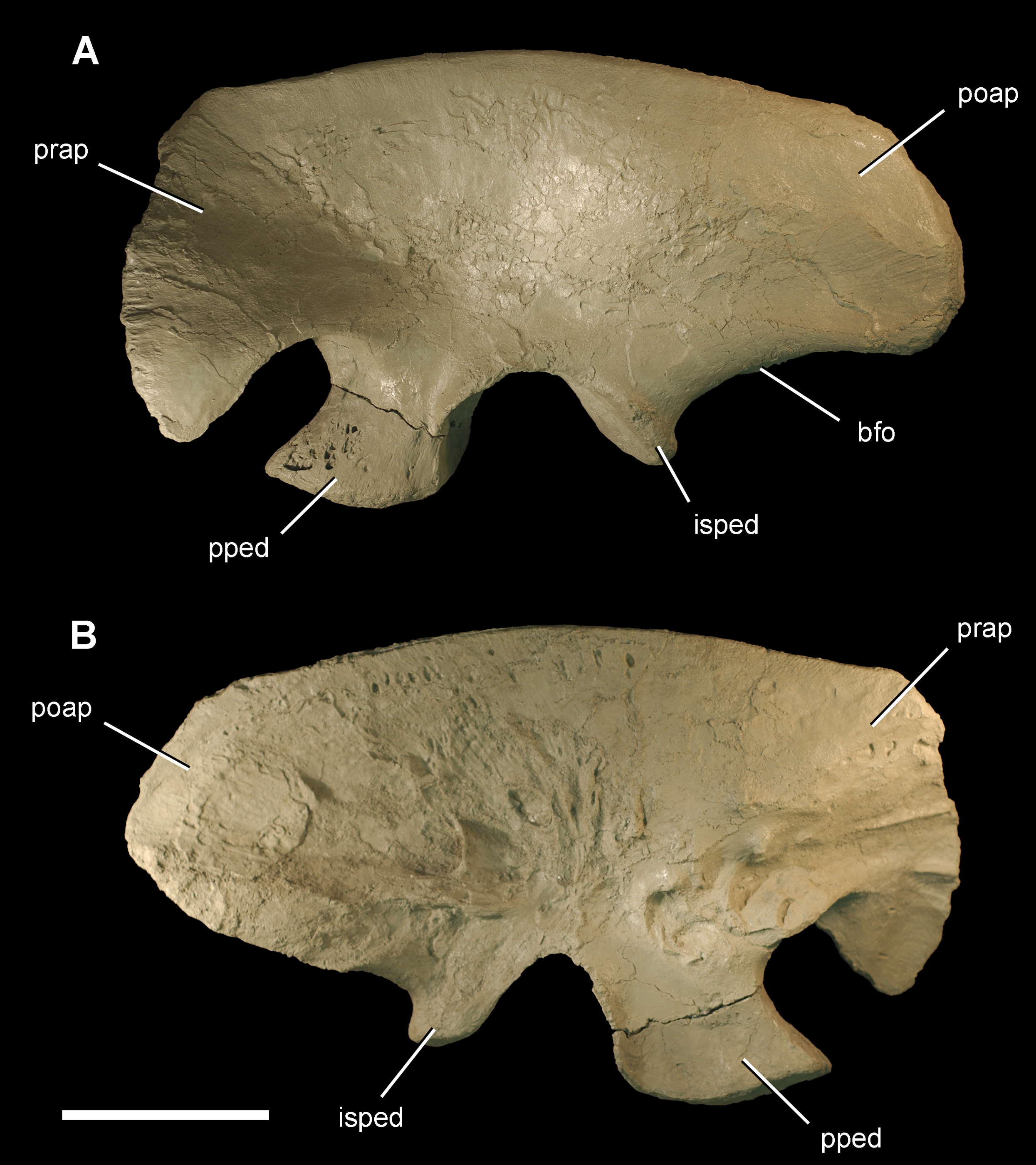 Figure 13. Ilium of the theropod Aerosteon riocoloradensis. Left ilium (MCNA-PV-3137; cast) in left lateral (A) and medial (B) views. Scale bar equals 20 cm. Abbreviations: bfo, brevis fossa; isped, ischial peduncle; poap, postacetabular process; pped, pubic peduncle; prap, preacetabular process.